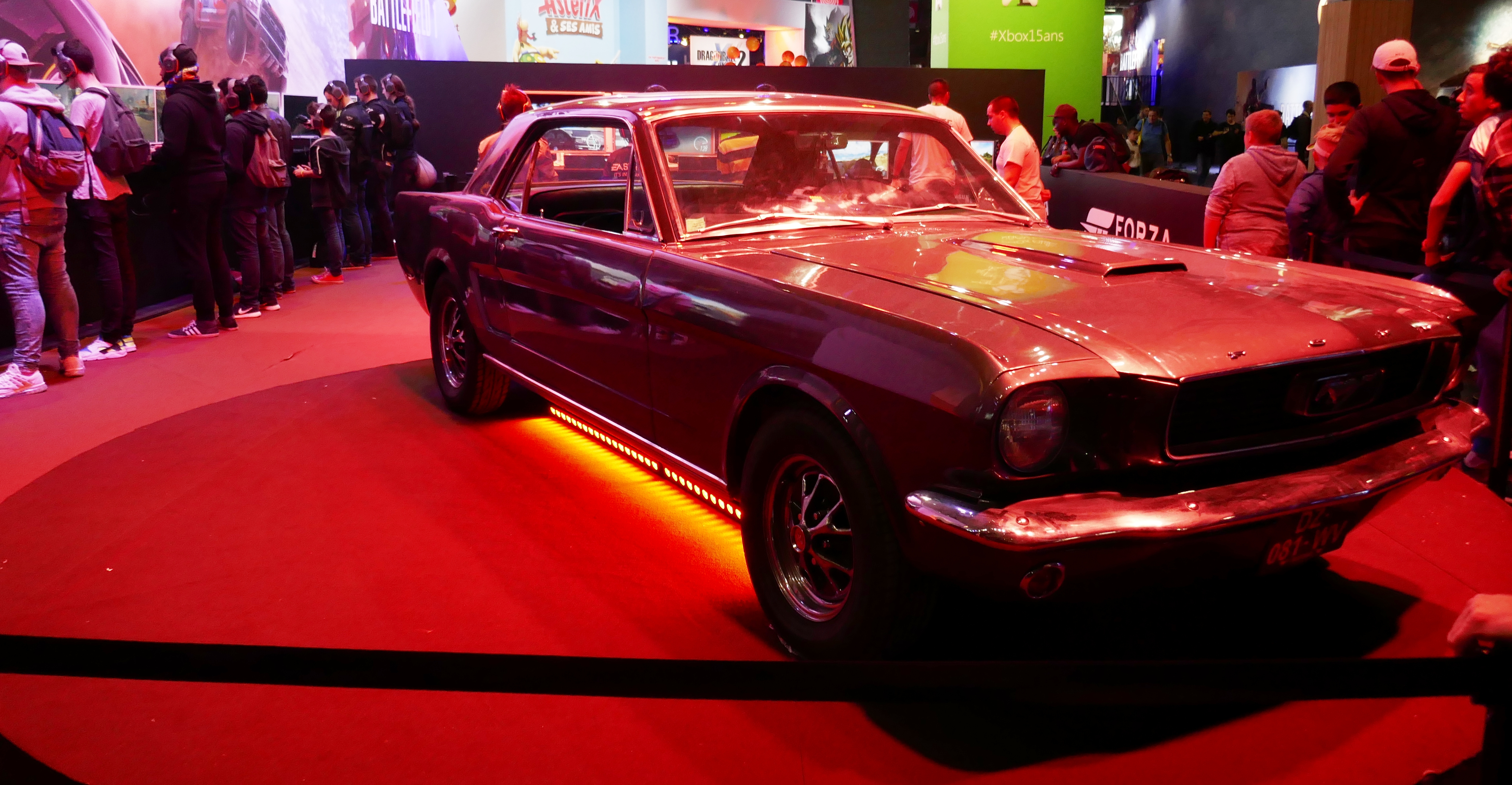 Forza Horizon 3 Stand - Paris Games Week 2016